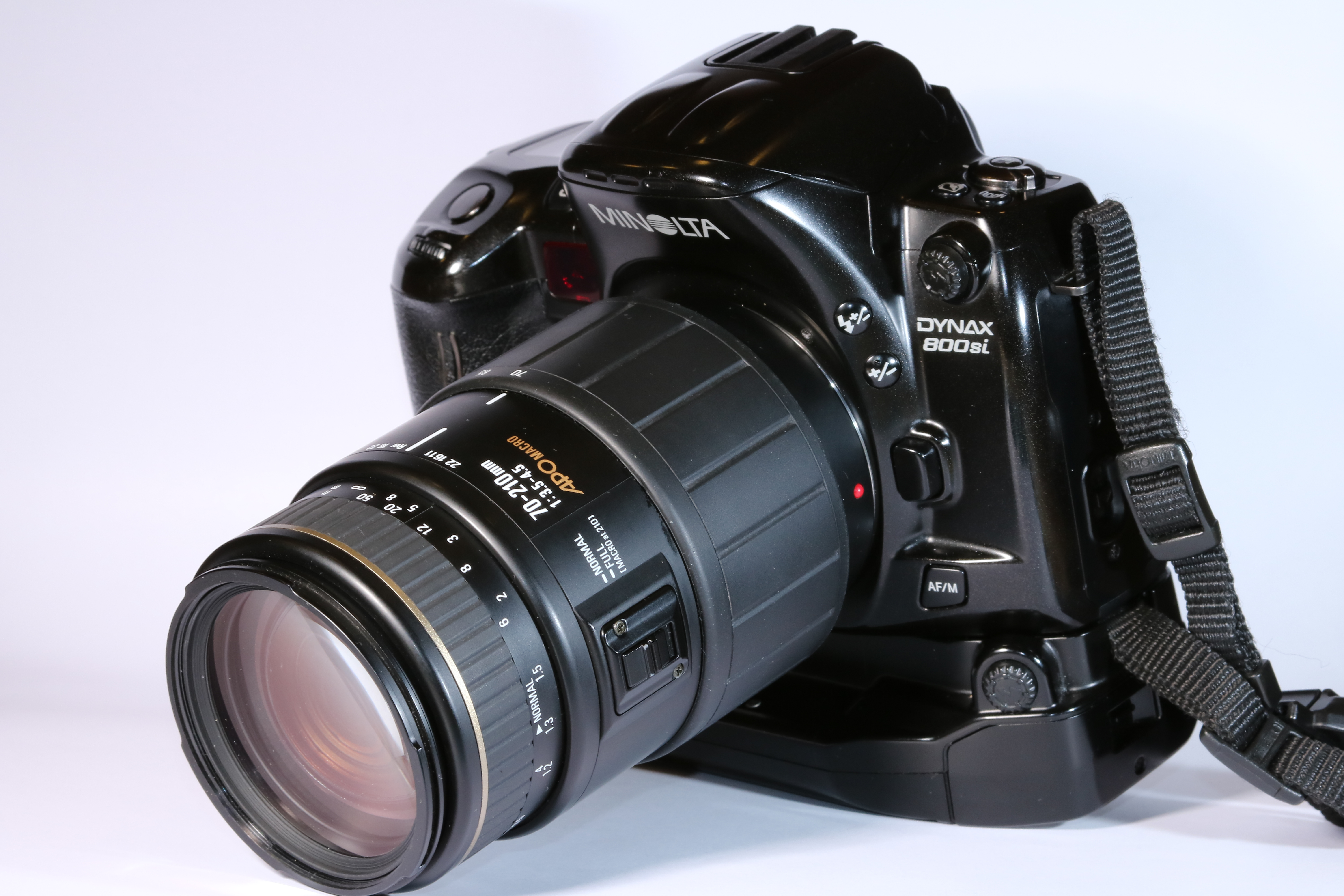 Minolta Dynax 800si camera with Sigma 70-210 mm 1:3.5-4.5 lens and VC-700 grip.